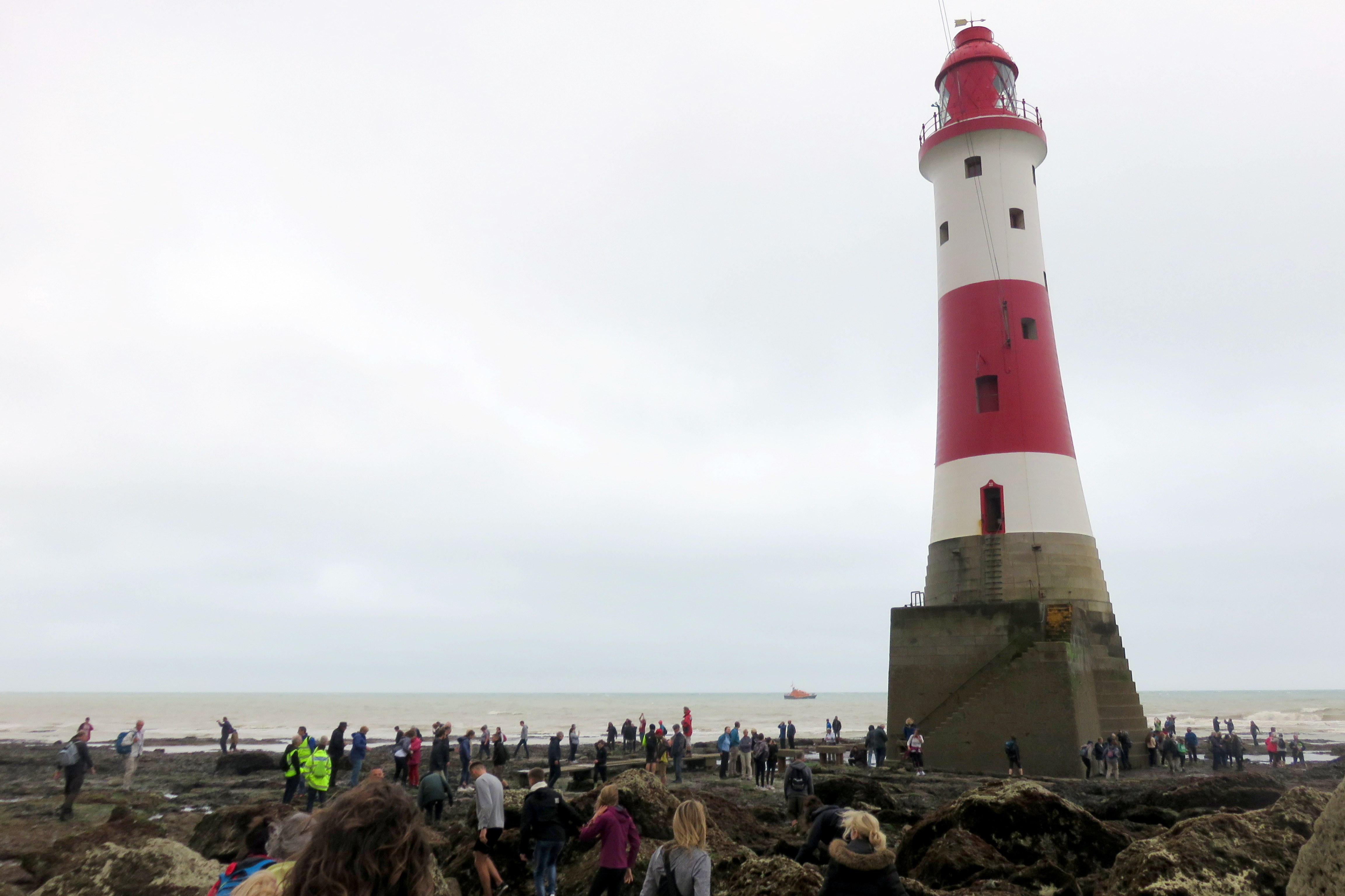 Beachy Head Lighthouse Wikidata has entry Q15197902 with data related to this item.